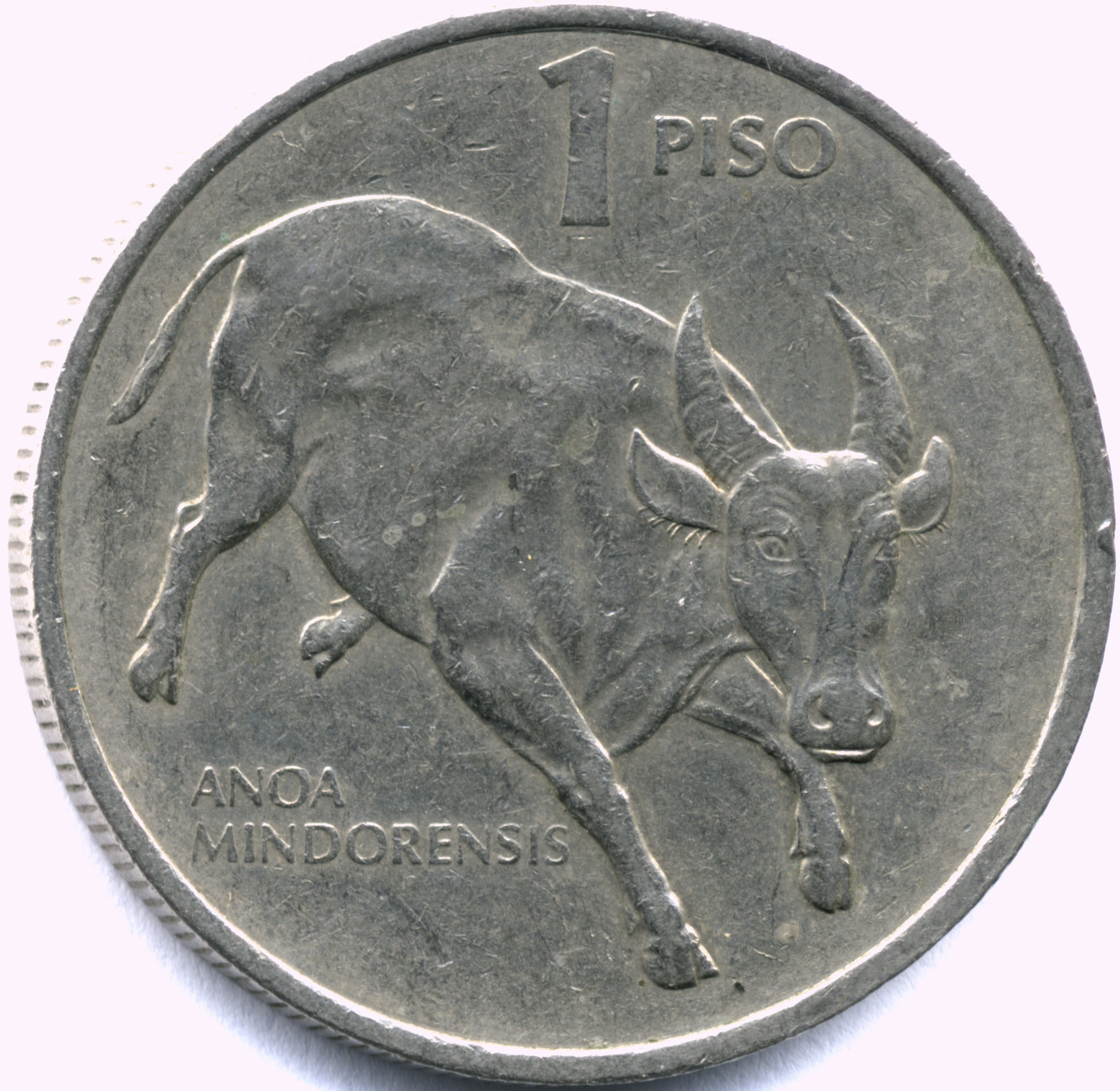 One Piso Philippine coin 1989 reverse